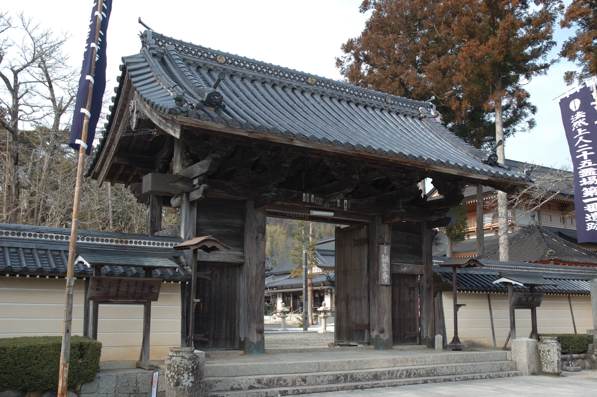 Main gate of Tanjō-ji temple (built in 1716, Japan's national important cultural property), Kumenan Town, Okayama, Japan